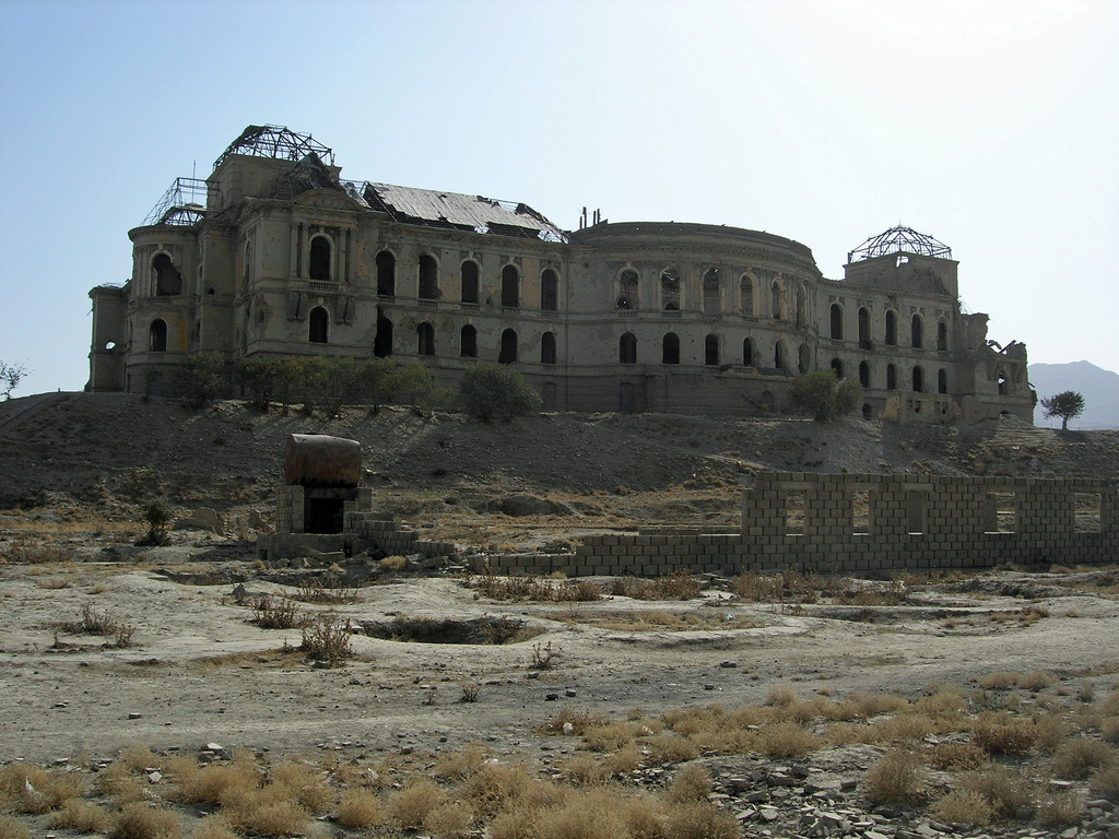 Darulaman palace built in the 1920?s. It has seen better days. It's war-torn shell stands on a peak which makes it a nice place for a military base. Thus now it is, resplendent in it's razor wire and gun turrets.